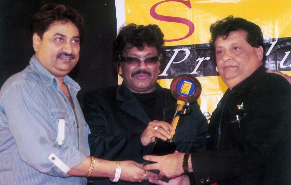 Thakur Doultani with Kumar Sanu & Shravan (Nadeem Shravan fame)